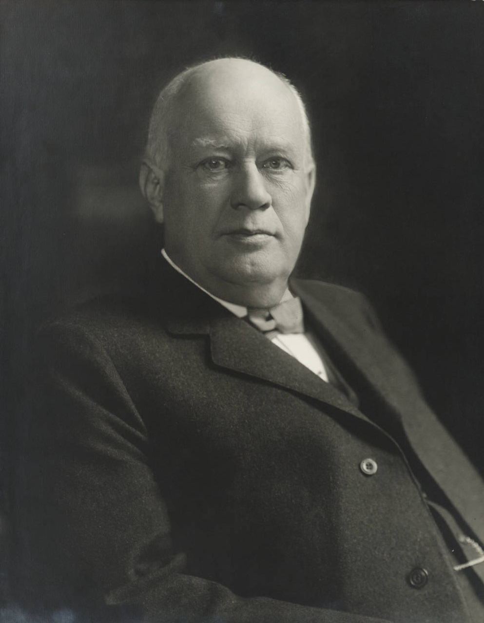 Portrait of Robert W. Speer, 26th and 30th Mayor of Denver, Colorado.